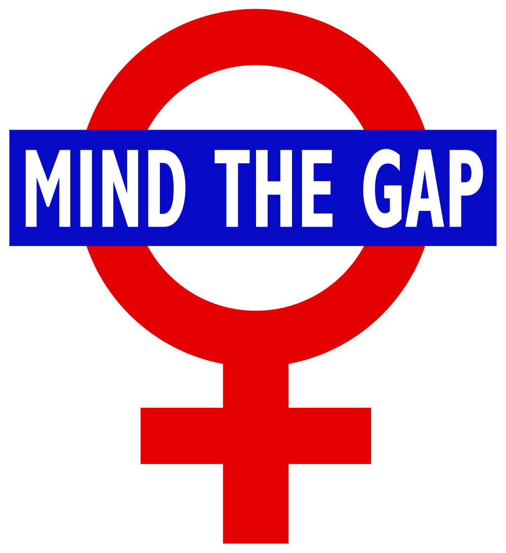 "Mind the Gap" goes feminist.